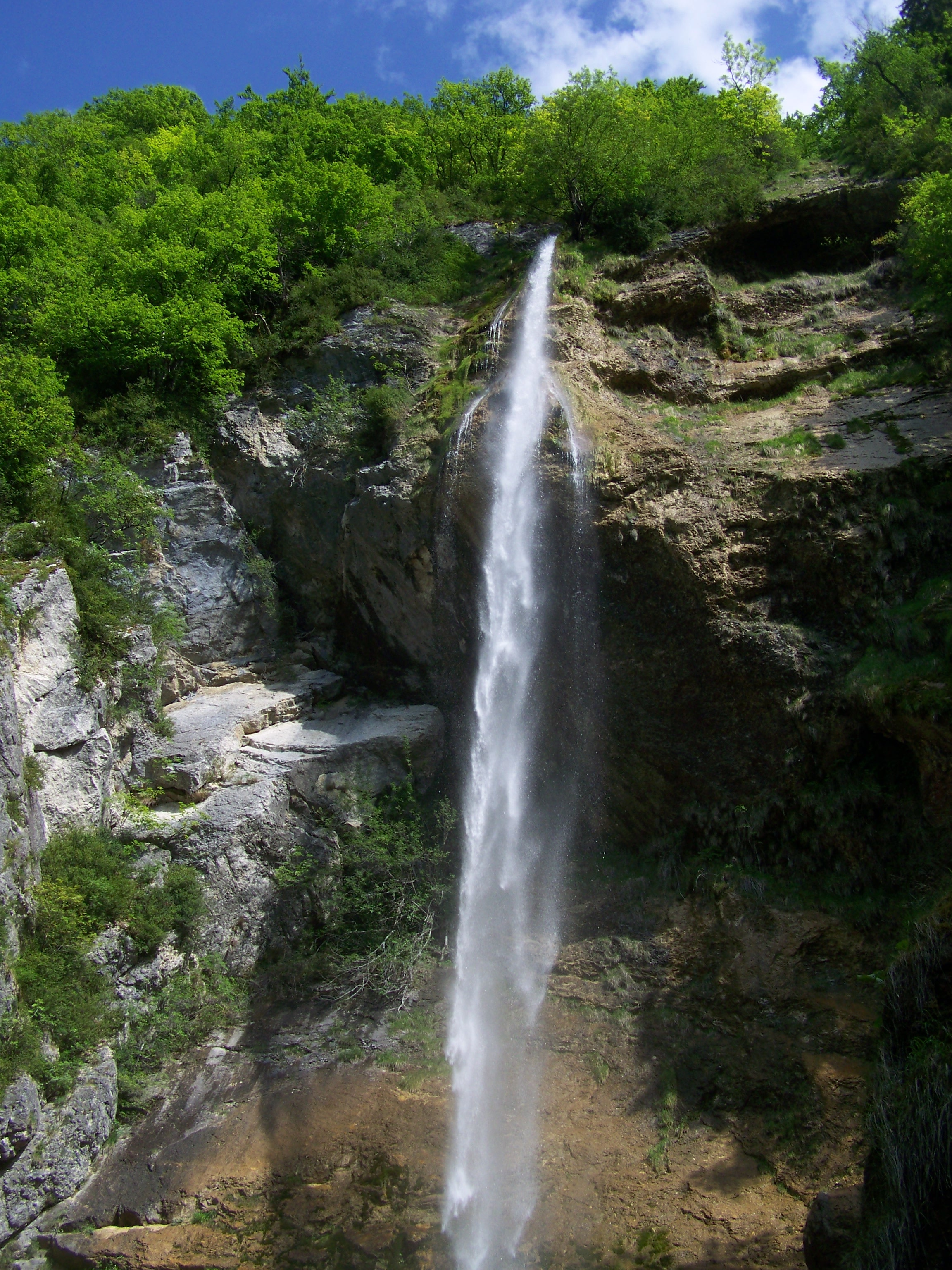 Sight of the cascade de Couz water fall, between Saint-Cassin and Vimines, in Savoie, France.